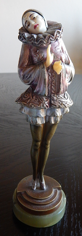 A circa 1922 chryselephantine, cold-painted pierrette sculpture by Paul Philippe (1870-1930).